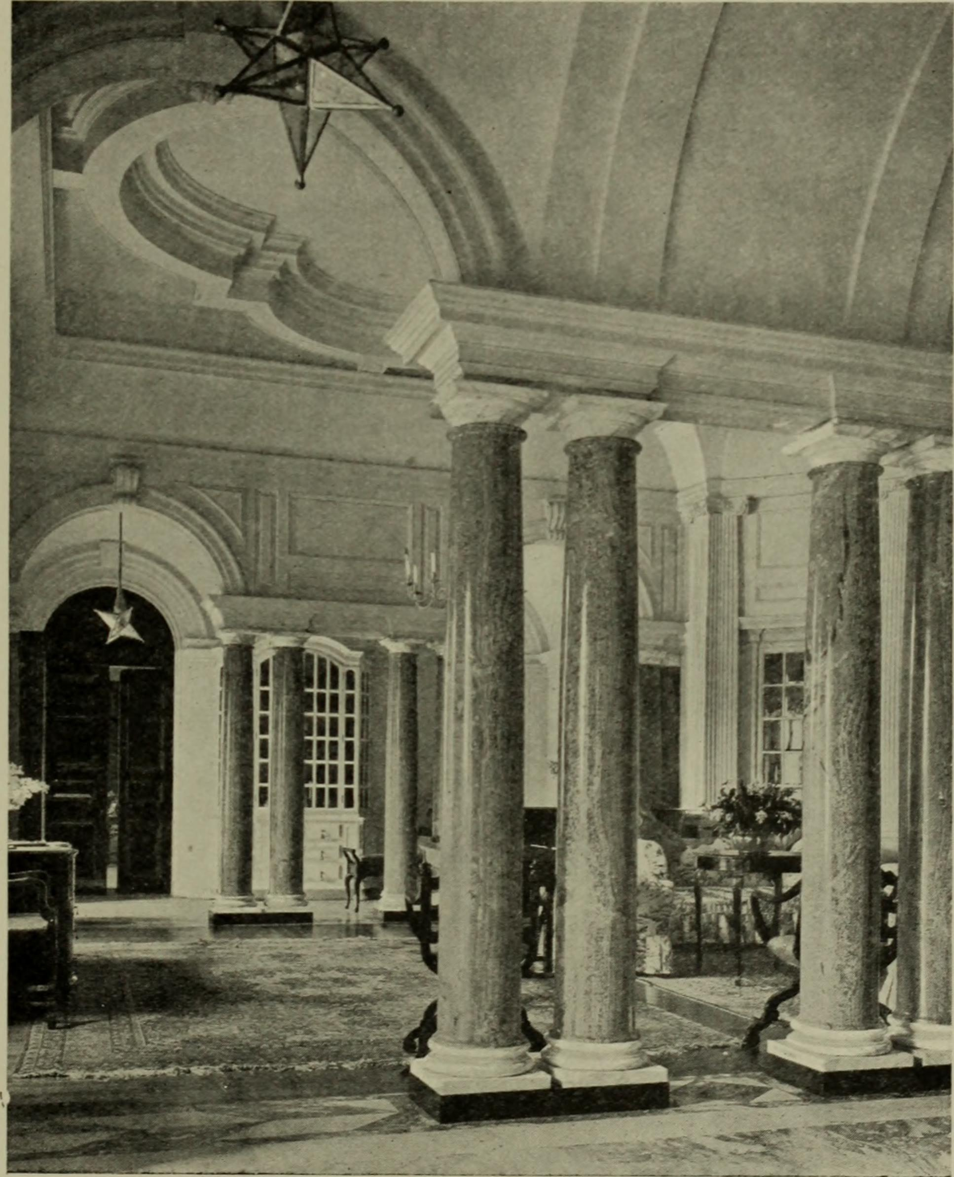 Title: Lutyens houses and gardens Year: 1921 (1920s) Authors: Weaver, Lawrence, 1876-1930 Subjects: Lutyens, Edwin Landseer, Sir, 1869-1944 Architecture, Domestic Gardens Publisher: London, Offices of "Country life", ltd. (etc.) New York, C. Scribner's Sons Text Appearing Before Image: the carpet adds its note of fine colour. There is a general increase in richness as we go fromvestibule to staircase hall, and from the latter to the mainhall, which gives on to the terrace. The hall (Fig. 79) isnotable both in its plan and proportions. Its middle spaceis divided from the sides (which serve as passage-ways tothe terrace doors) by columns of a green Siberian marble,then for the first time used in England. The middle ceilingis treated as a great shaped panel with a rib of so heavy Heathcote, Ilkley in a section that nothing but the sure judgment of its designerhas saved it from seeming clumsy. The windows are towards the outside of the walls, anarrangement which gives a deep-set look within, and thethickness of the walls prevents the afternoon sun frompouring directly into the room. Notable among the manylittle devices which add to the amenities of the house arethe curtain blinds of embroidered brocade which opendoor-fashion on swinging rods, an improvement on ordinary Text Appearing After Image: 79.—The Hall at Heathcote. 112 Architect and Client forms of blind and curtain. At each end of the hall areglazed cabinets for china, which show delicacy of detailcombined with a prevailing simplicity. It is rarely the case,as at Heathcote, that the architect has the opportunity ofdesigning every piece of furniture for the house and choosingevery hanging and carpet. The overruling unity whichhere prevails is not only a tribute to the skill of the designer,but to the unusual wisdom of the client. Mr. Hemingwayhad the judgment to value the policy of the free hand,and he is to be congratulated as much as his architect,who has risen to the occasion by devising every detail